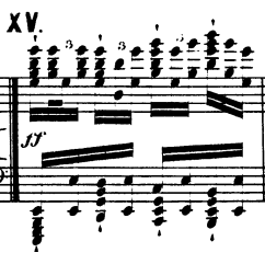 Fifteenth variation of Le festin d'Ésope, composed by by Charles-Valentin Alkan